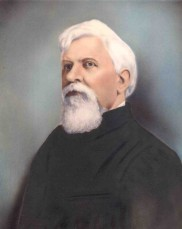 Hand-colored photograph of the historical figure Judge Isaac Parker, circa 1896. Any copyrights have expired. Source, Fort Smith Historical Society: and multiple other places.